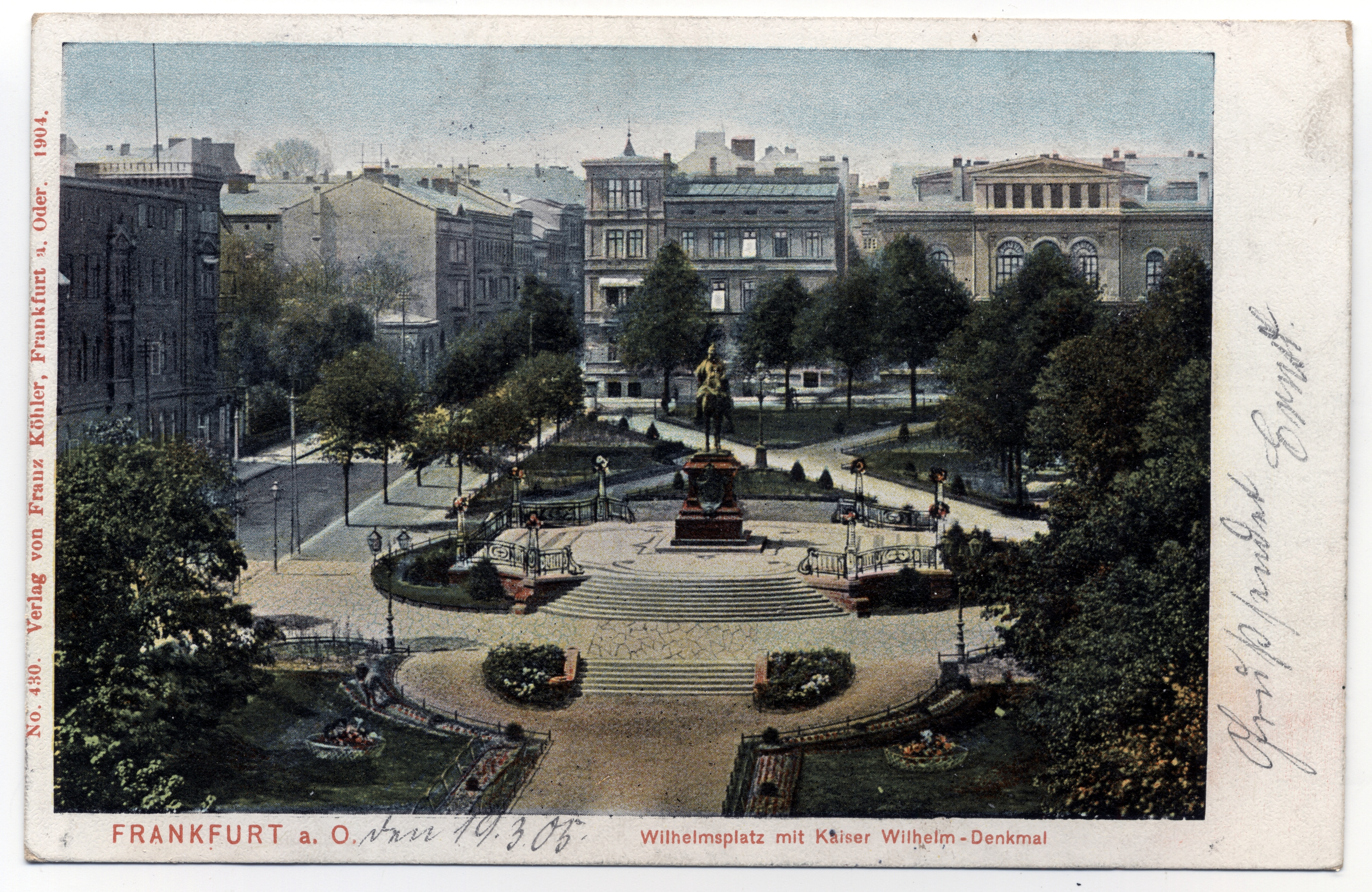 Frankfurt (Oder), Wilhelmsplatz square with Wilhelm I. monument and the theatre.